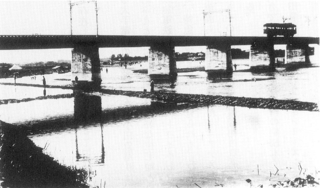 Odawara Express Tamagawa bridge in 1927.